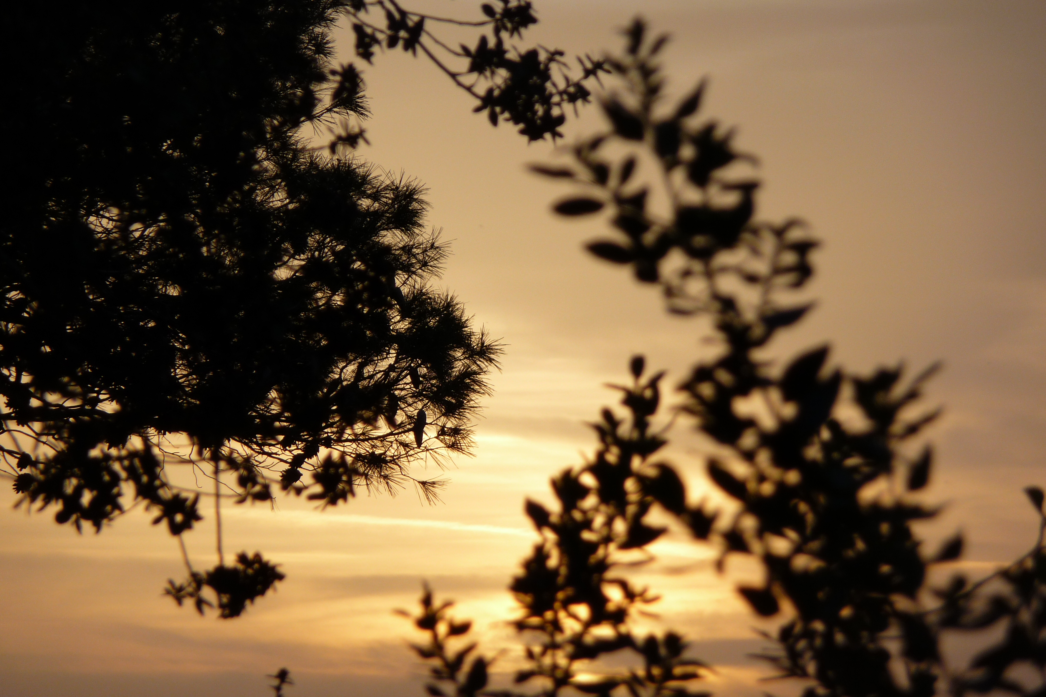 IBet Oren